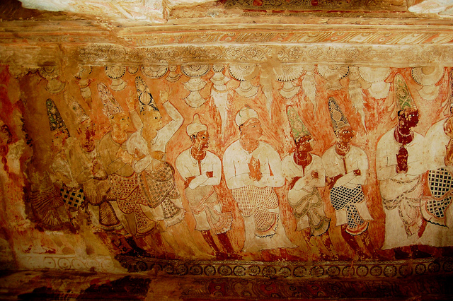 Nayaka paint in Lepakshi Temple